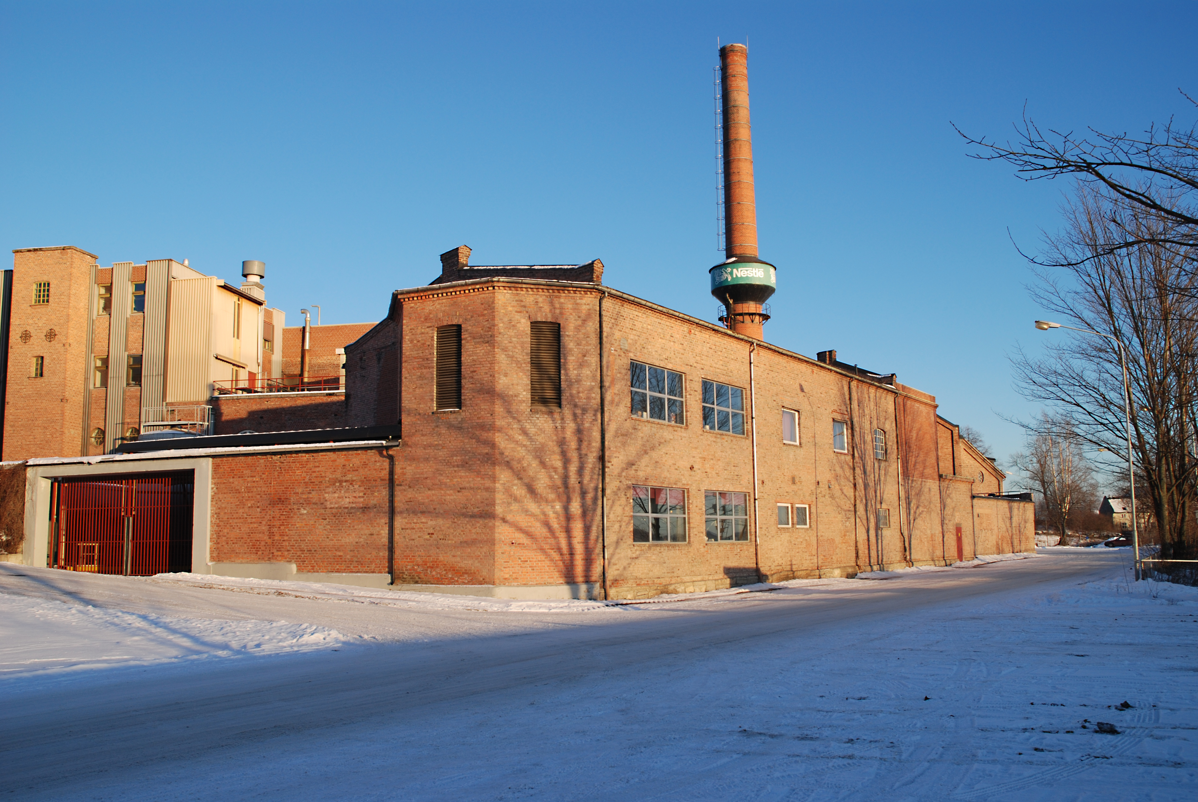 Nestlé in Hamar, Norway. (Previously known as The Norwegian Condensed Milk Co.)